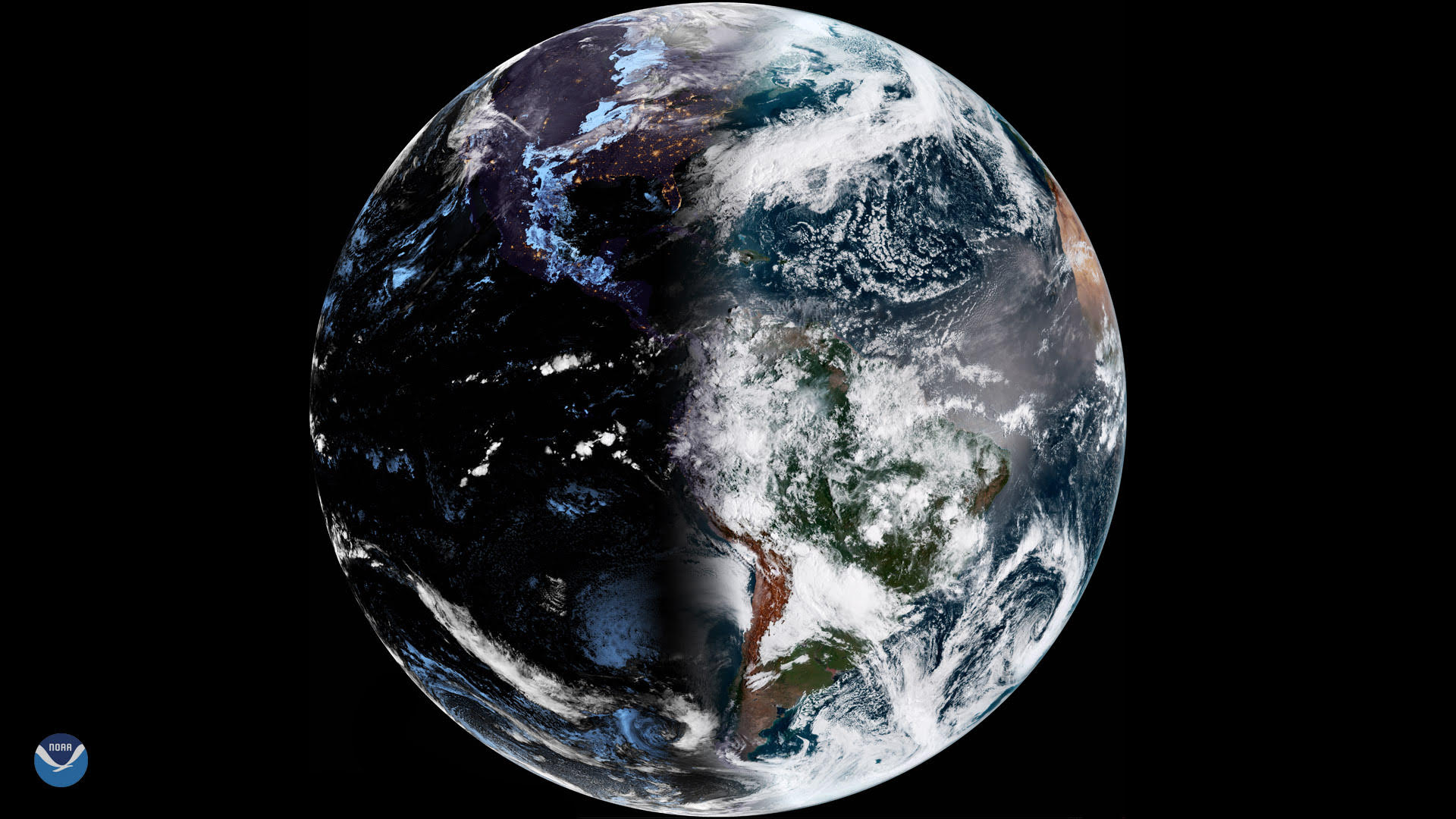 There are two times each year, in March and September, when the amount of daylight and darkness is “nearly” equal at all latitudes. This phenomenon, commonly referred to as an equinox, happens when the Earth’s axis is tilted neither toward nor away from the sun. During an equinox, the sun is directly over the equator at noon. “The ‘nearly’ equal hours of day and night is due to refraction of sunlight, or a bending of the light's rays that causes the sun to appear above the horizon when the actual position of the sun is below the horizon,” according to the National Weather Service. On Wednesday, March 20, 2019, at 5:58 p.m. ET the Earth will be at its equinox, marking the first astronomical day of spring. This differs from meteorological spring, which began on March 1. So what does all of this mean for you? Well, if you live in the Northern Hemisphere, this means it’s time to soak up the sun because the days will be longer at higher latitudes! (Note: This GOES East image was captured on March 20, 2019, at 8 a.m. ET prior to the equinox) Terms of use: Please credit NOAA